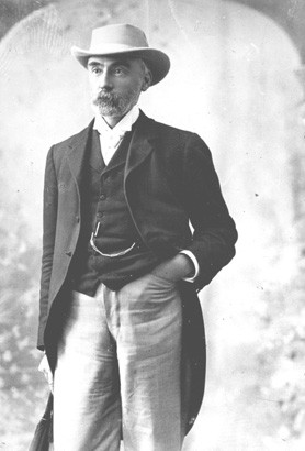 This is a photograph of C. Y. O'Connor (1842–1902), taken in 1897.